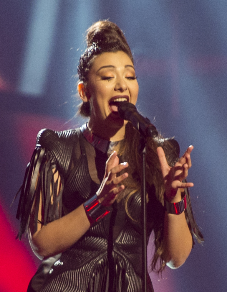 Sanja Vučić ZAA representing Serbia with the song "Goodbye" during a rehearsal before the second semi final of the Eurovision Song Contest 2016 in Stockholm. (Help translate this text)